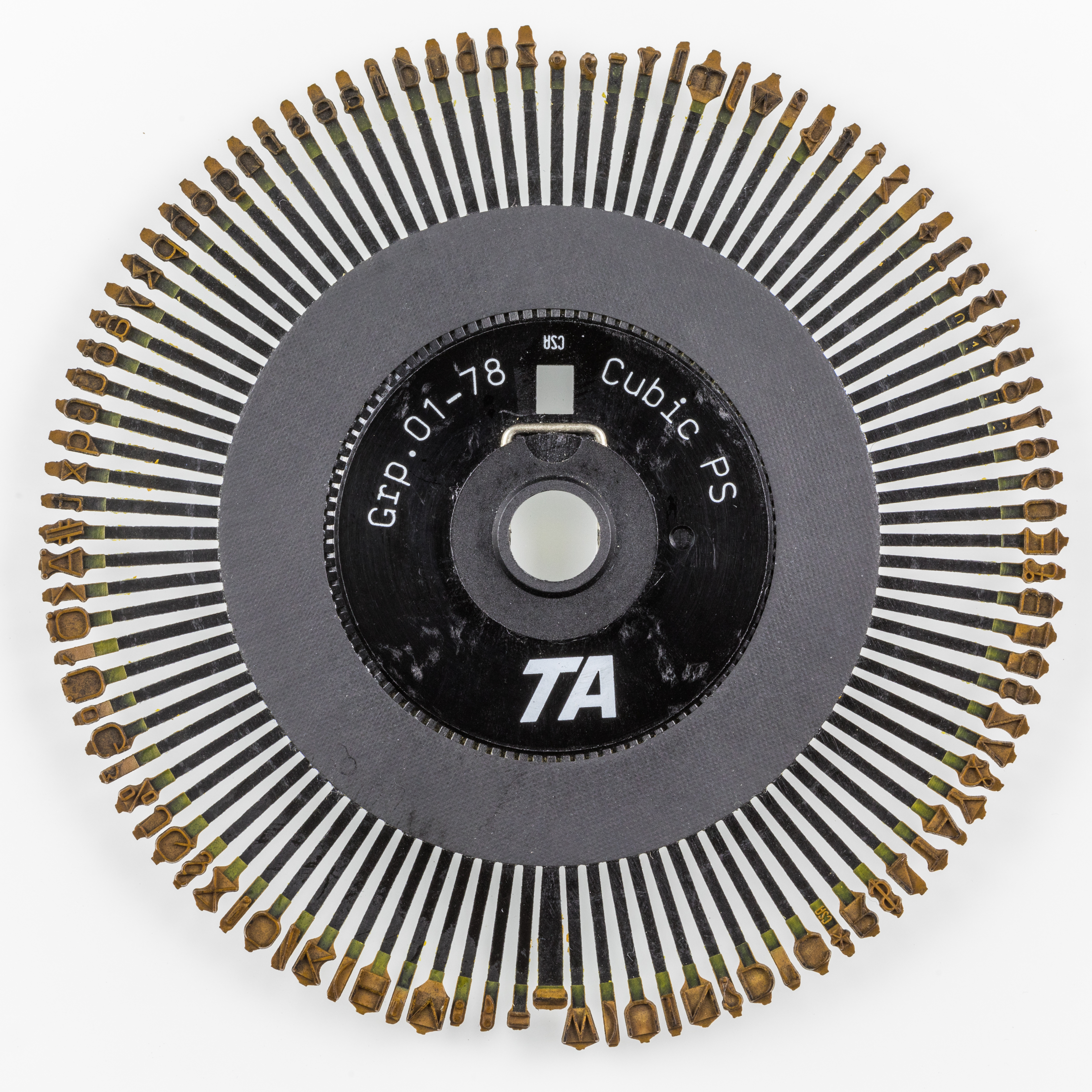 Triumph-Adler Daisy wheel Cubic PS